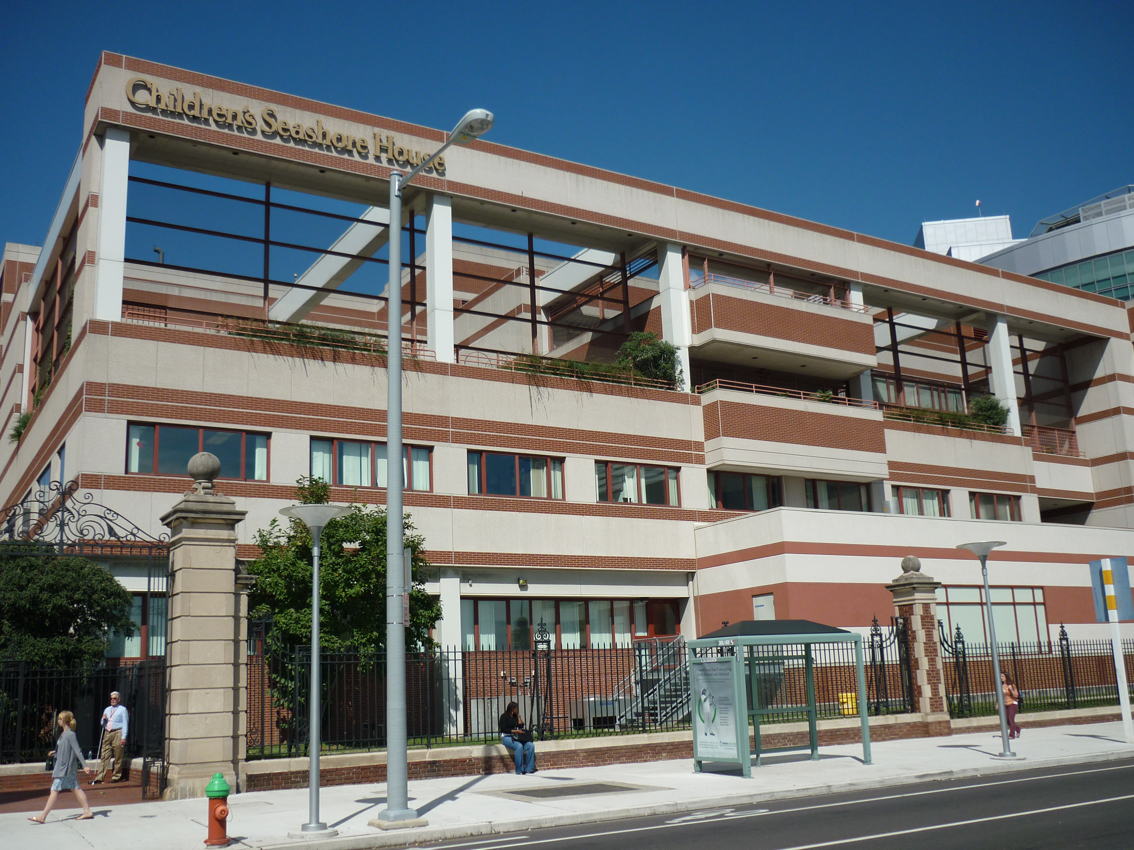 Children's Seashore House, 1990 facility. Some ironwork, brickwork and limestone that dates back to Philadelphia General Hospital is also visible.